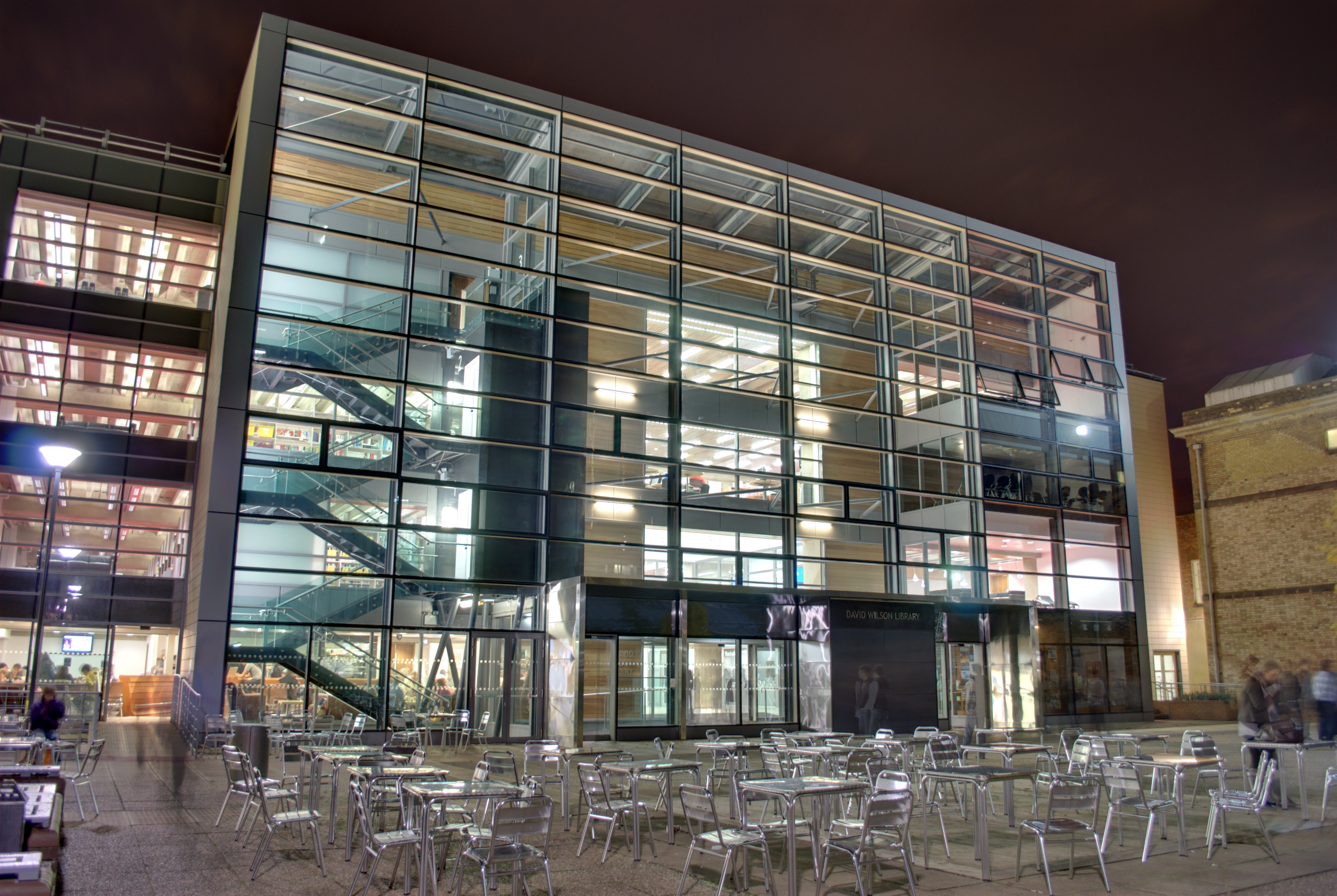 The David Wilson Library at the University of Leicester by night. Several exposures blended by EnfuseGUI